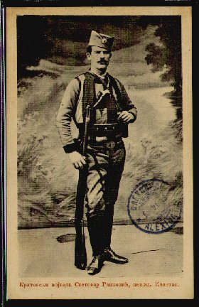 Serbian Officer and Chetnik Voivode Svetozar Ranković